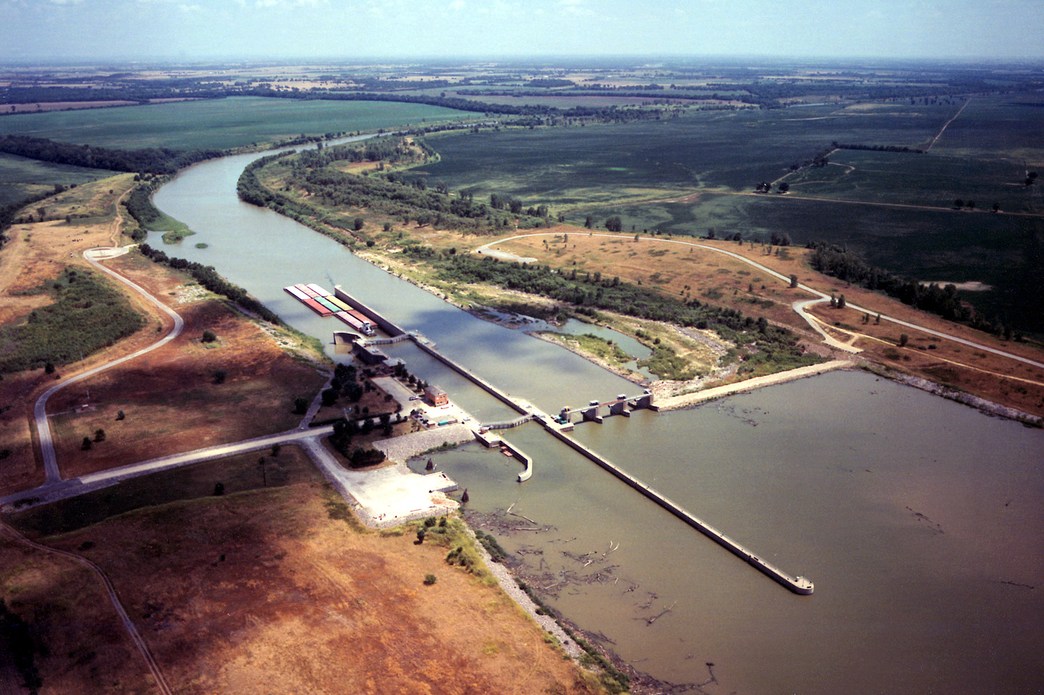 Aerial view of the Newt Graham Lock and Dam on the Verdigris River in Wagoner County, Oklahoma, USA. The lock and dam are part of the McClellan-Kerr Arkansas River Navigation System, which provides for barge navigation on the Arkansas River and some of its tributaries. The U.S. Army Corps of Engineers maintains the locks and navigation system. View is downriver to the south. Coordinates: 36°3′31.73″N 95°32′14.83″W / 36.0588139°N 95.5374528°W